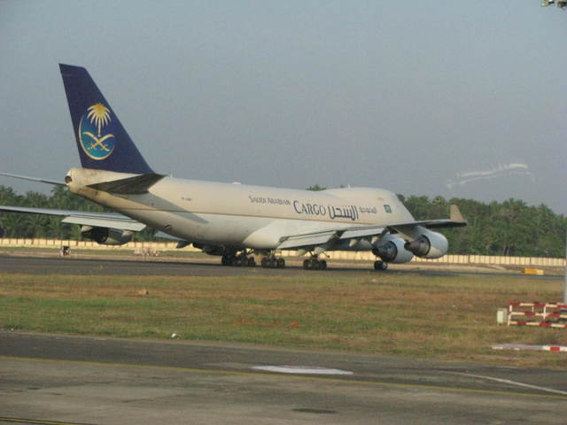 Saudi Arabian Cargo at Thiruvananthapuram (Trivandrum) international airport, Kerala, India.